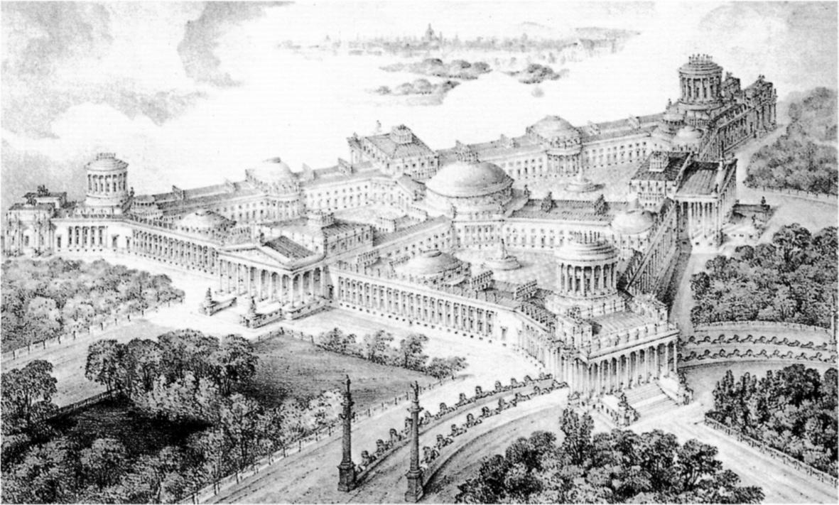 John Soane. Design for a Royal Palace, bird's-eye view. 1821. London, Soane Museum.